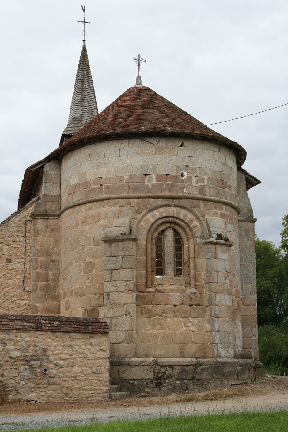 Eglise Saint-Jean-Baptiste (XIIe) à Rimondeix